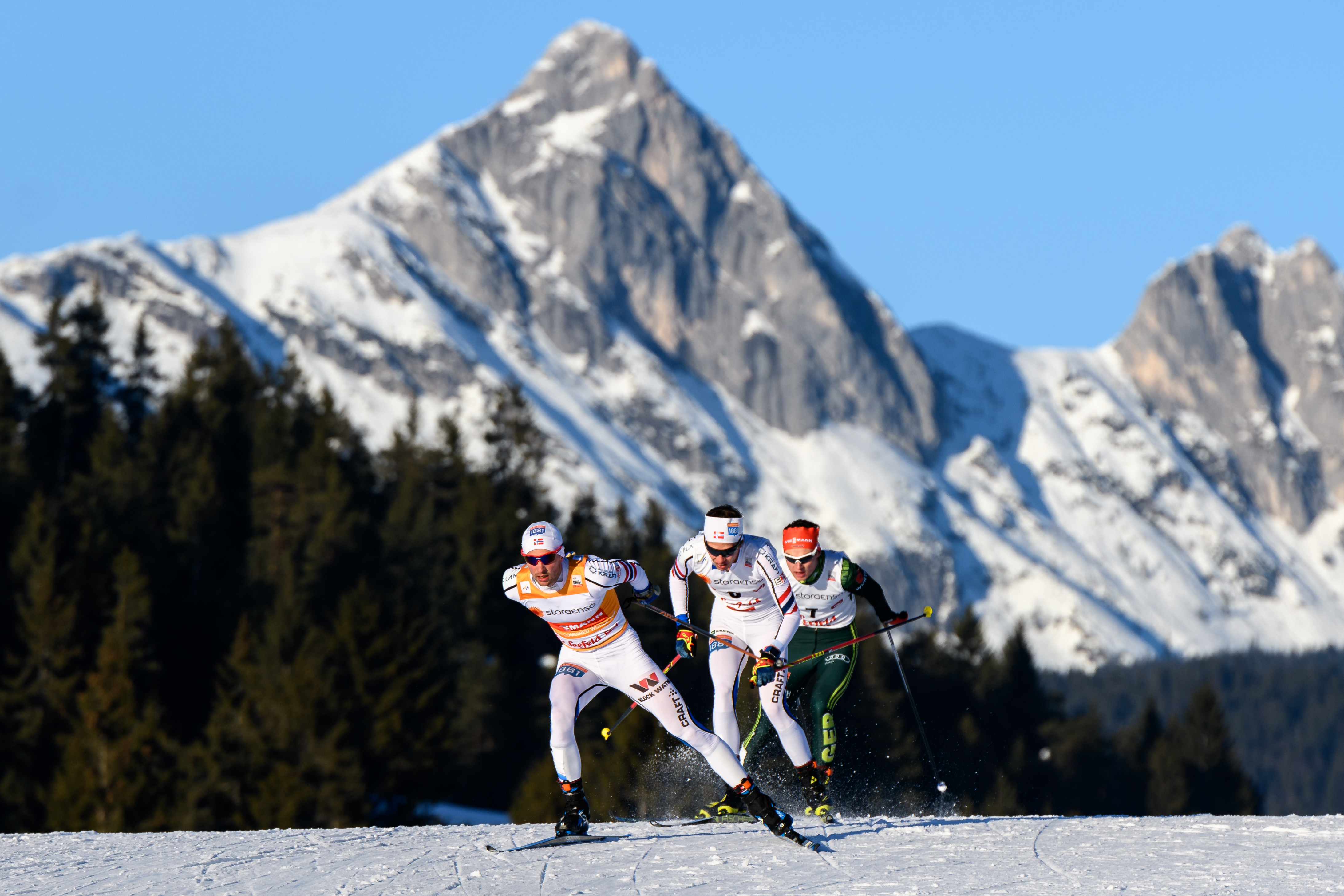 Seefeld-Triple 2018, second day January 27th. Picture shows Jan Schmid (5, NOR), Espen Andersen (6, NOR), Vinzenz Geiger (7, GER)